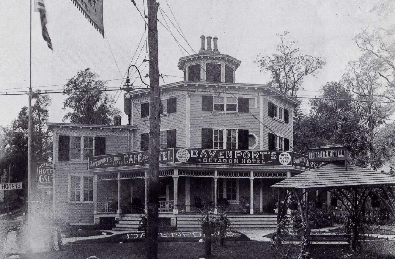 Digital duplicate of Octagon Hotel photo, circa 1910.